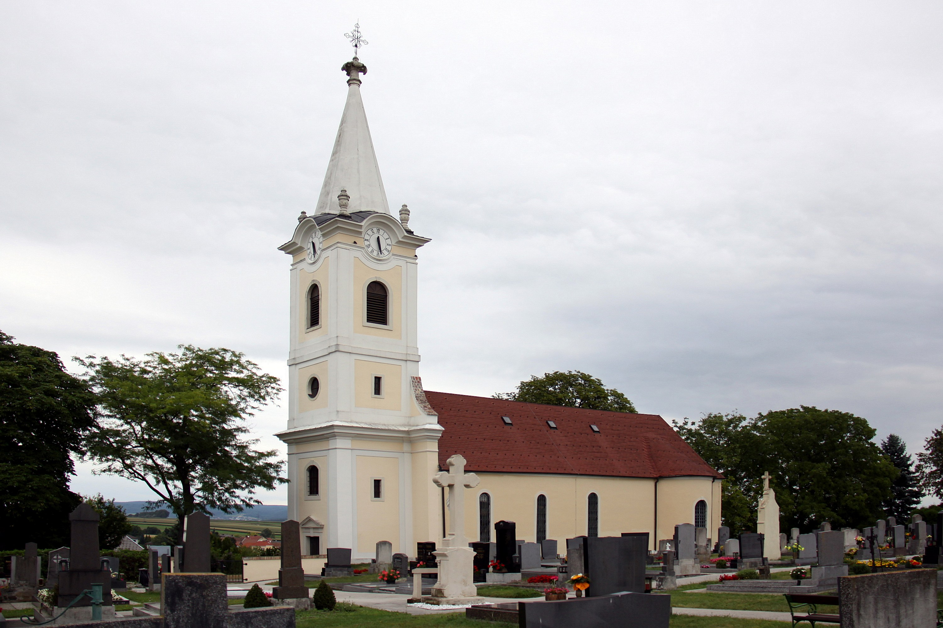 Parish church holy Sigismund - Krensdorf Object location47° 47′ 01.06″ N, 16° 24′ 57.47″ E